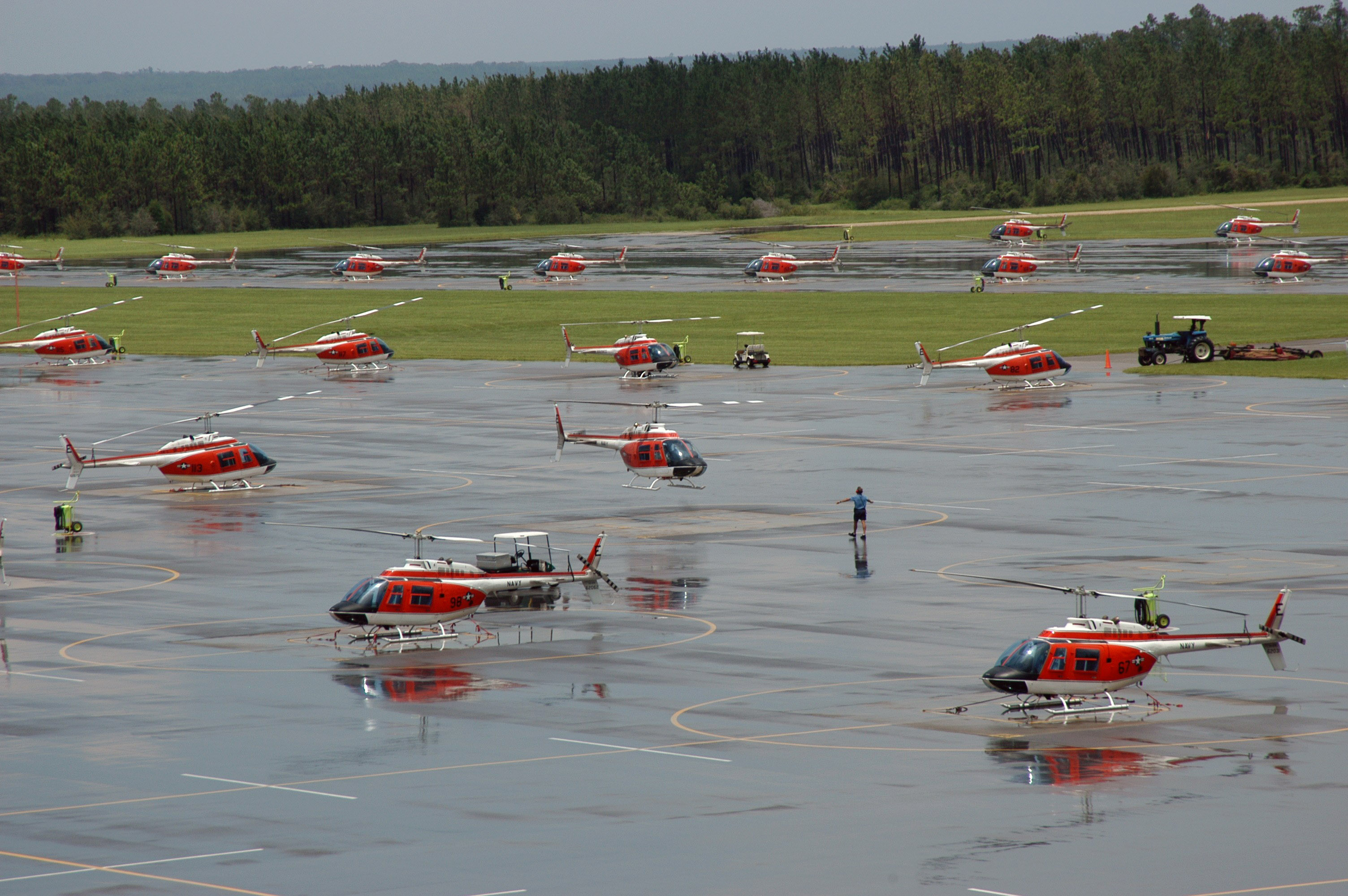 Whiting Field, Fla. (July 13, 2005) – Helicopters assigned to Training Air Wing Five (TW-5) return to Naval Air Station Whiting Field after Hurricane Dennis forced over 200 aircraft to evacuate to various bases throughout the country. U.S. Navy photo by Mr. Tom Thomas (RELEASED)